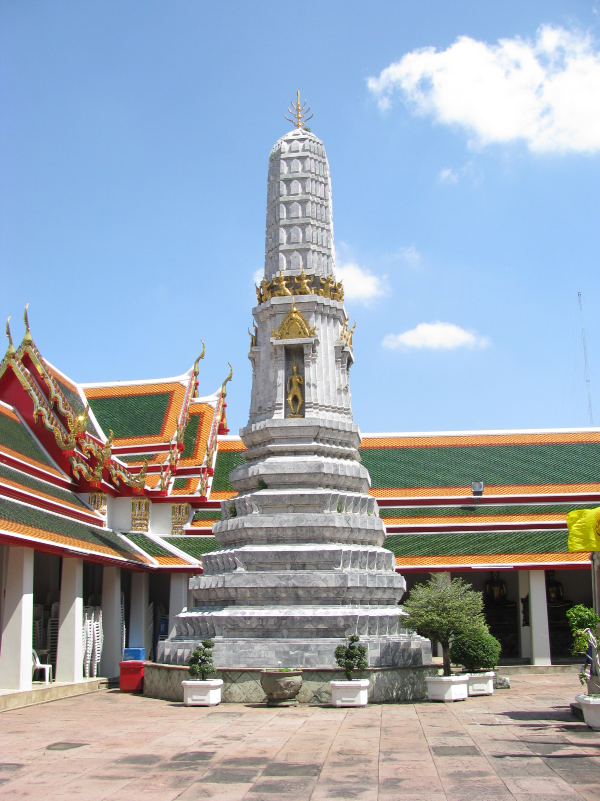 Wat Pho is a temple, located in Phra Nakhon, Bangkok, Thailand.